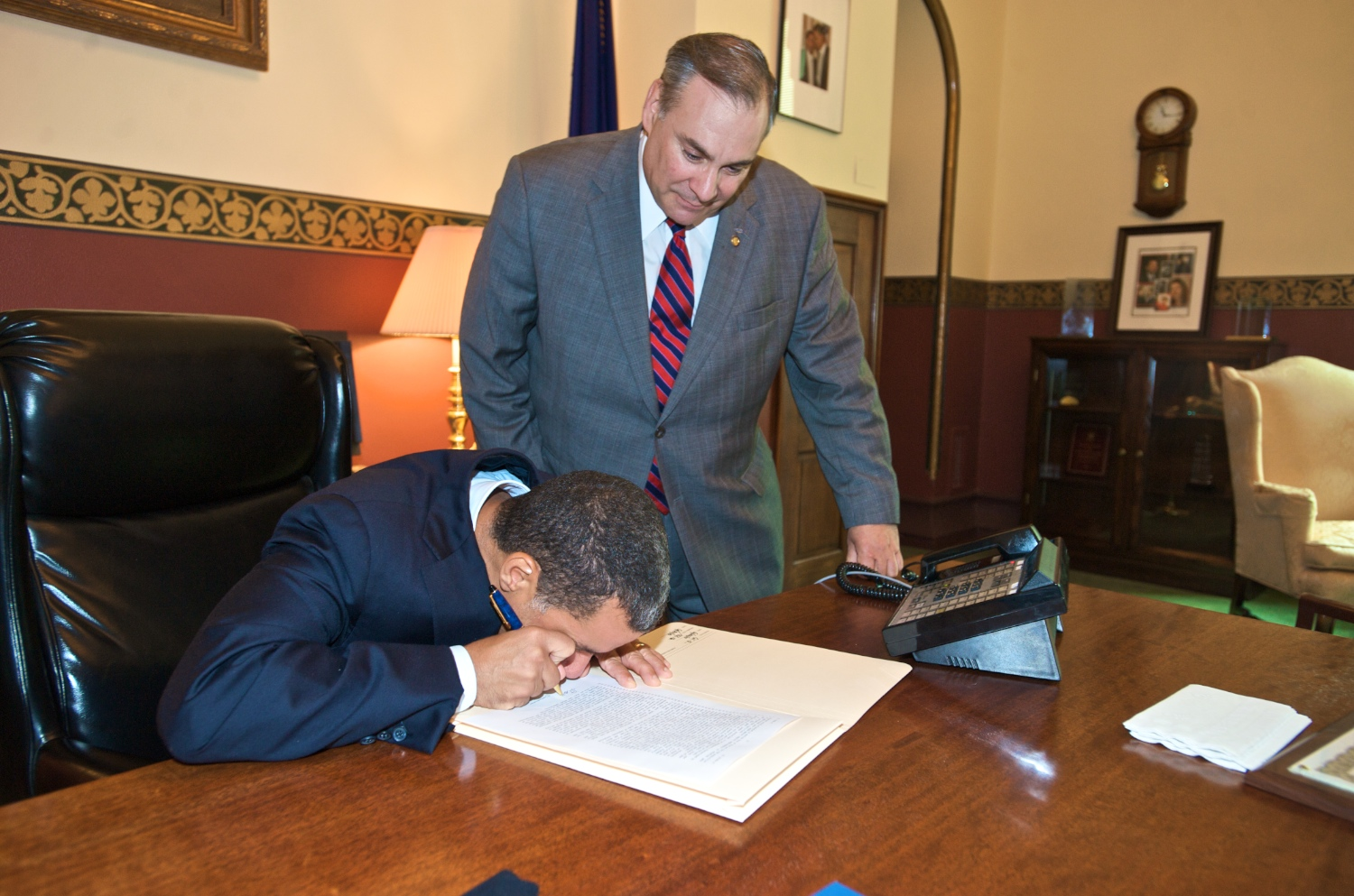 Gov Paterson signs Chapter 294 of the Laws of 2010 on 7.30.10 as Assemblyman Castelli looks on in Red Room in Albany